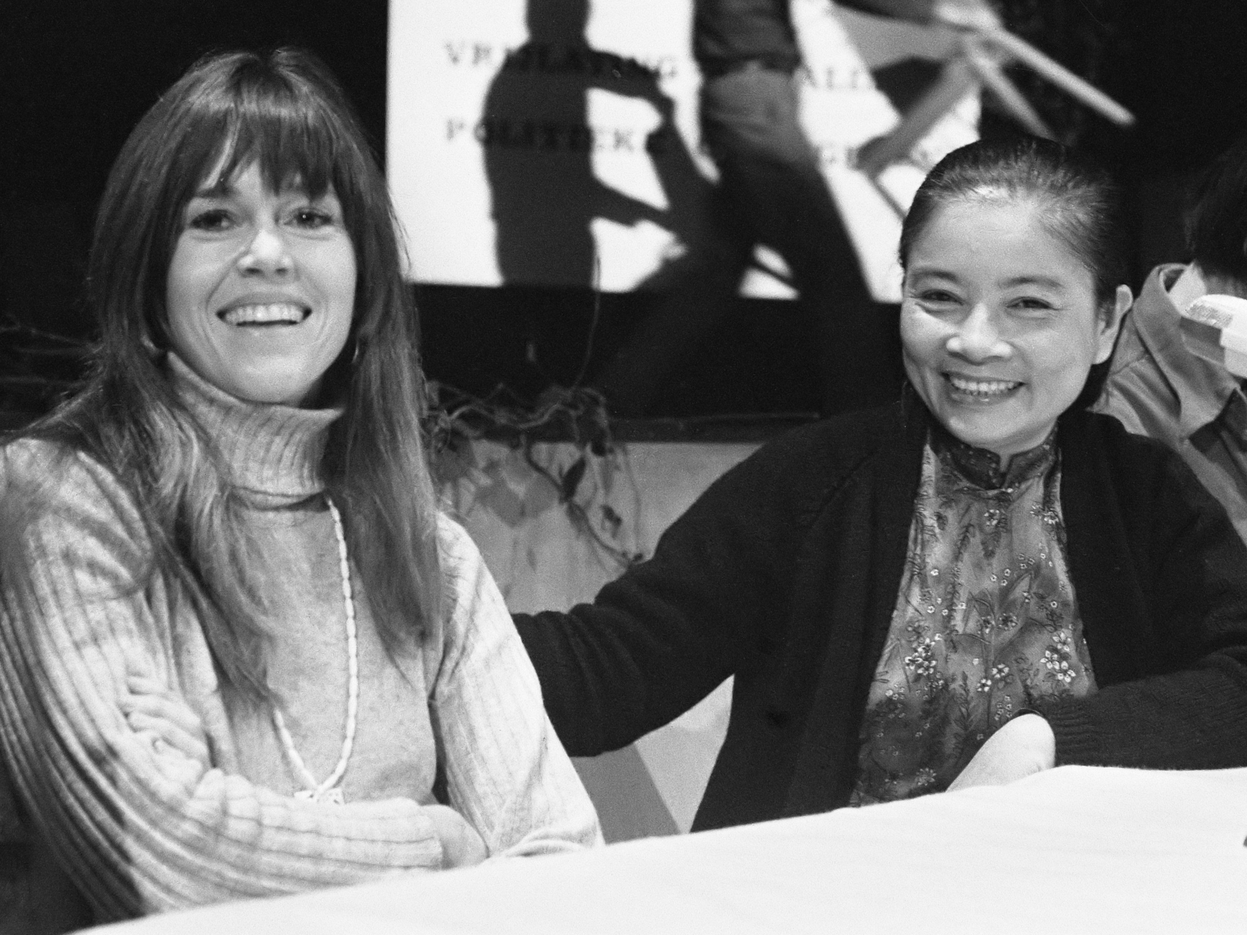 Jane Fonda (left) and Mrs. Pham Thi Minh. Vietnam manifestation at Lindenberg (Nijmegen) cultural center. January 18, 1975.